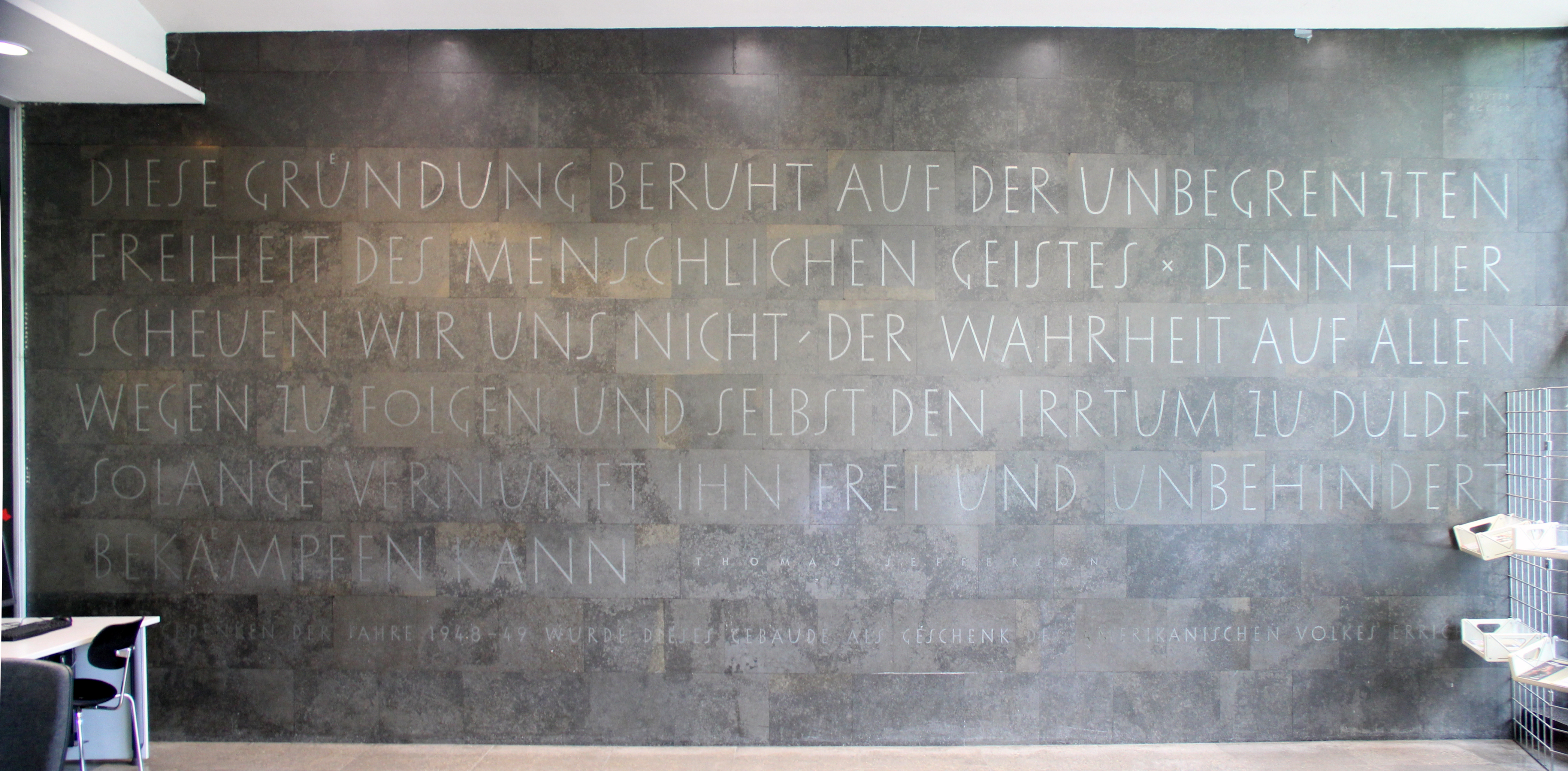 Memorial plaque, Amerika-Gedenkbibliothek, Blücherplatz 1, Berlin-Kreuzberg, Germany